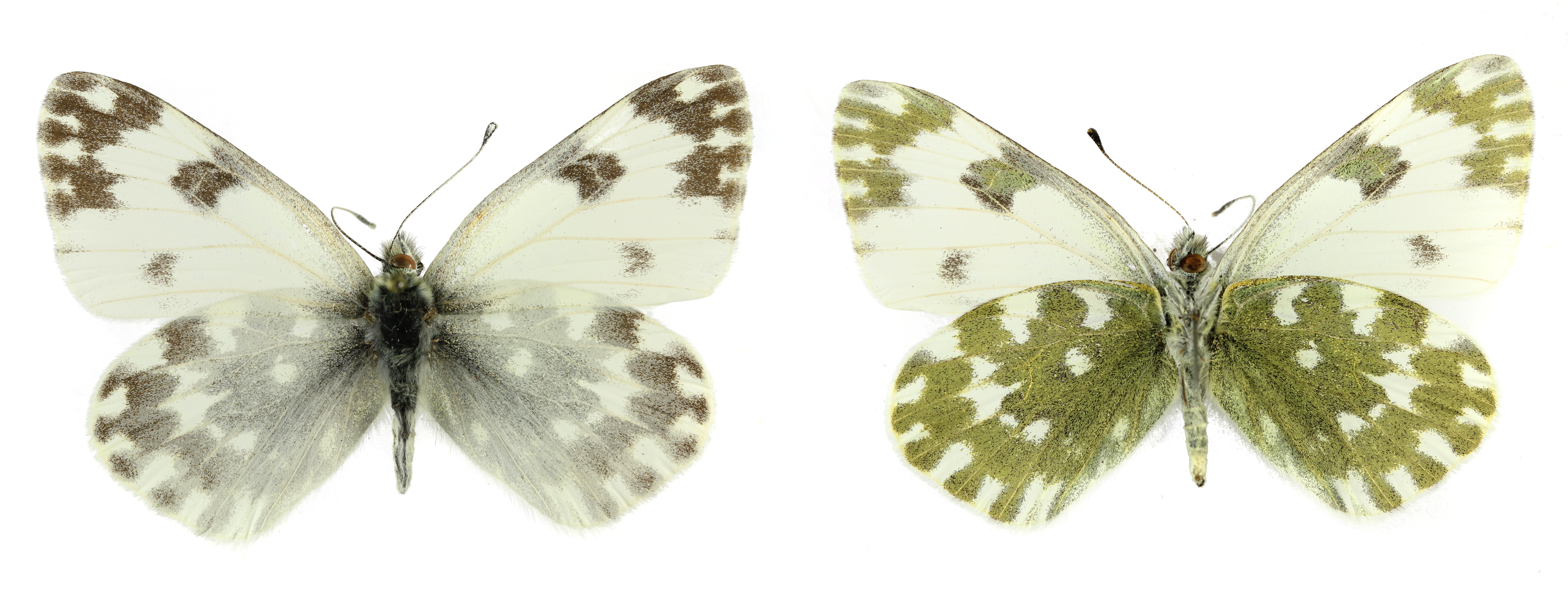 Pontia daplidice, male, insect collections SLU, Uppsala